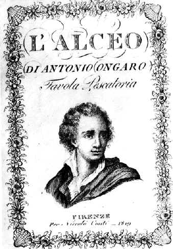 Cover of the 'Alceo', fable written in 1582 by the italian poet Antonio Ongaro and setting in Nettuno, Italy - edition of the 1819, with the portrait of the autor.